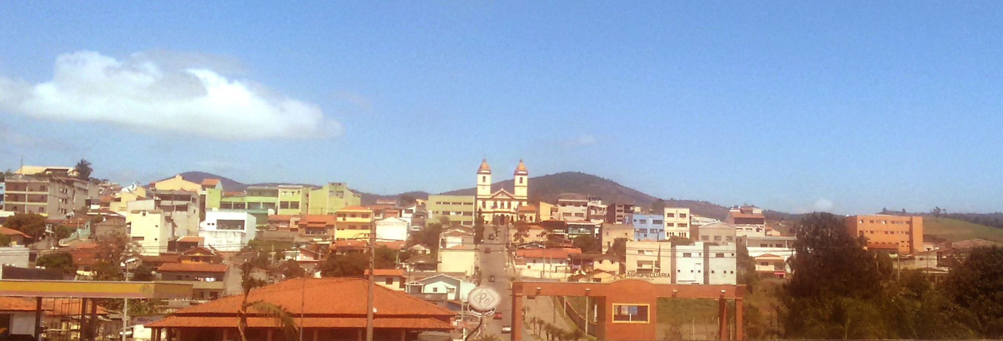 Downtown of BJP.